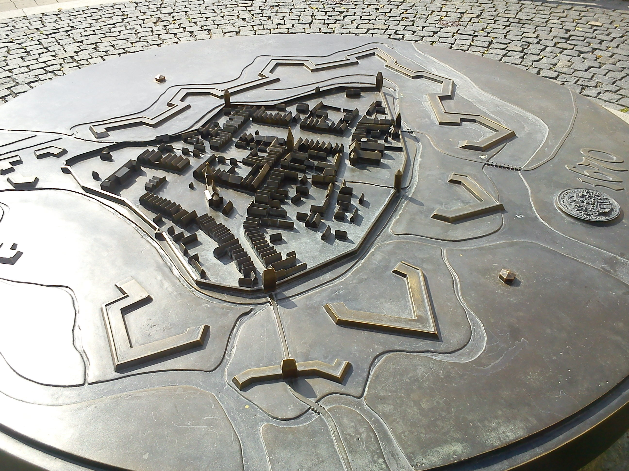 Relief map of Uherské Hradiště in 1670, at Masaryk square in Uherské Hradiště.